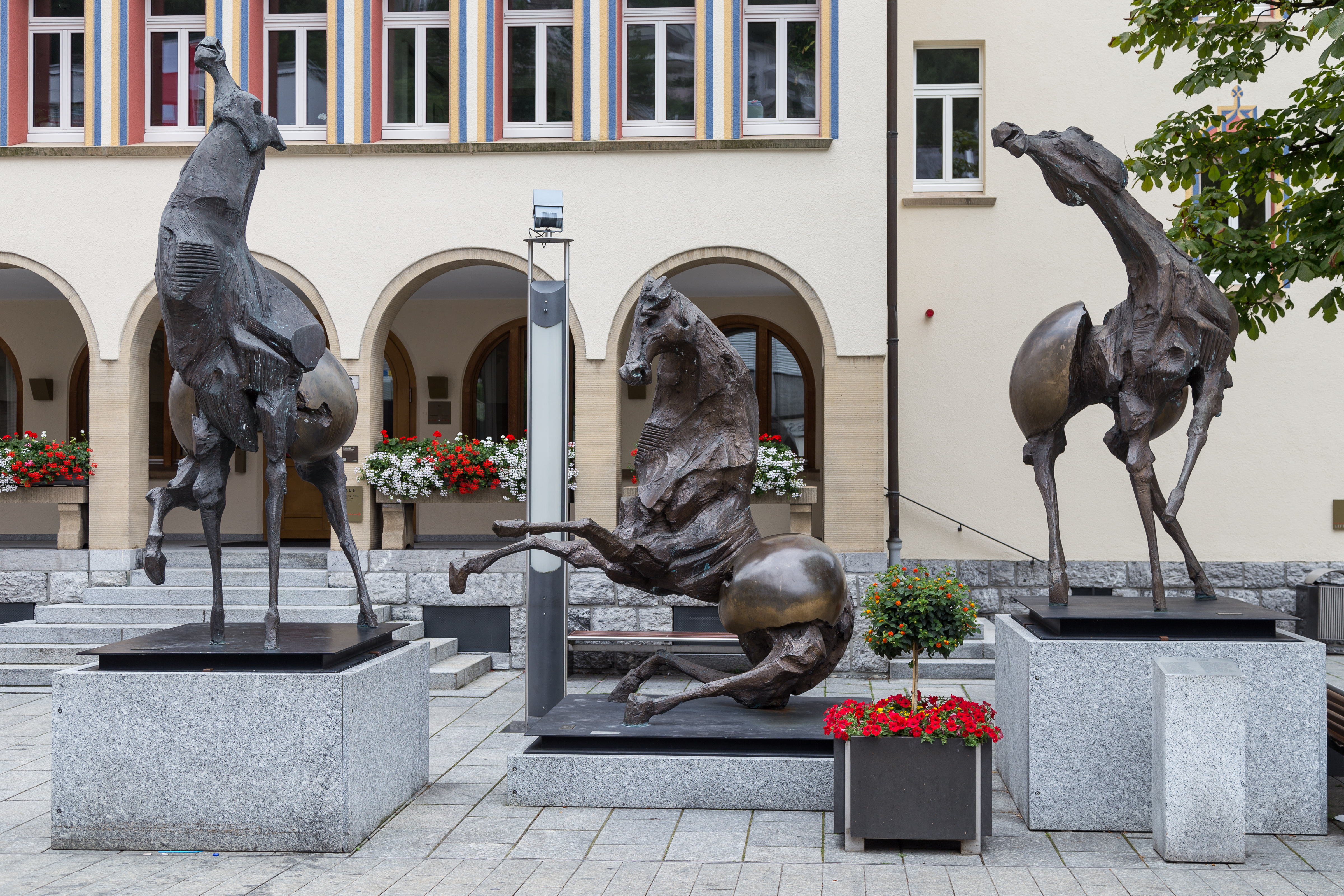 Tre Cavalli by Nag Arnoldi in front of the town hall of Vaduz (Liechtenstein)